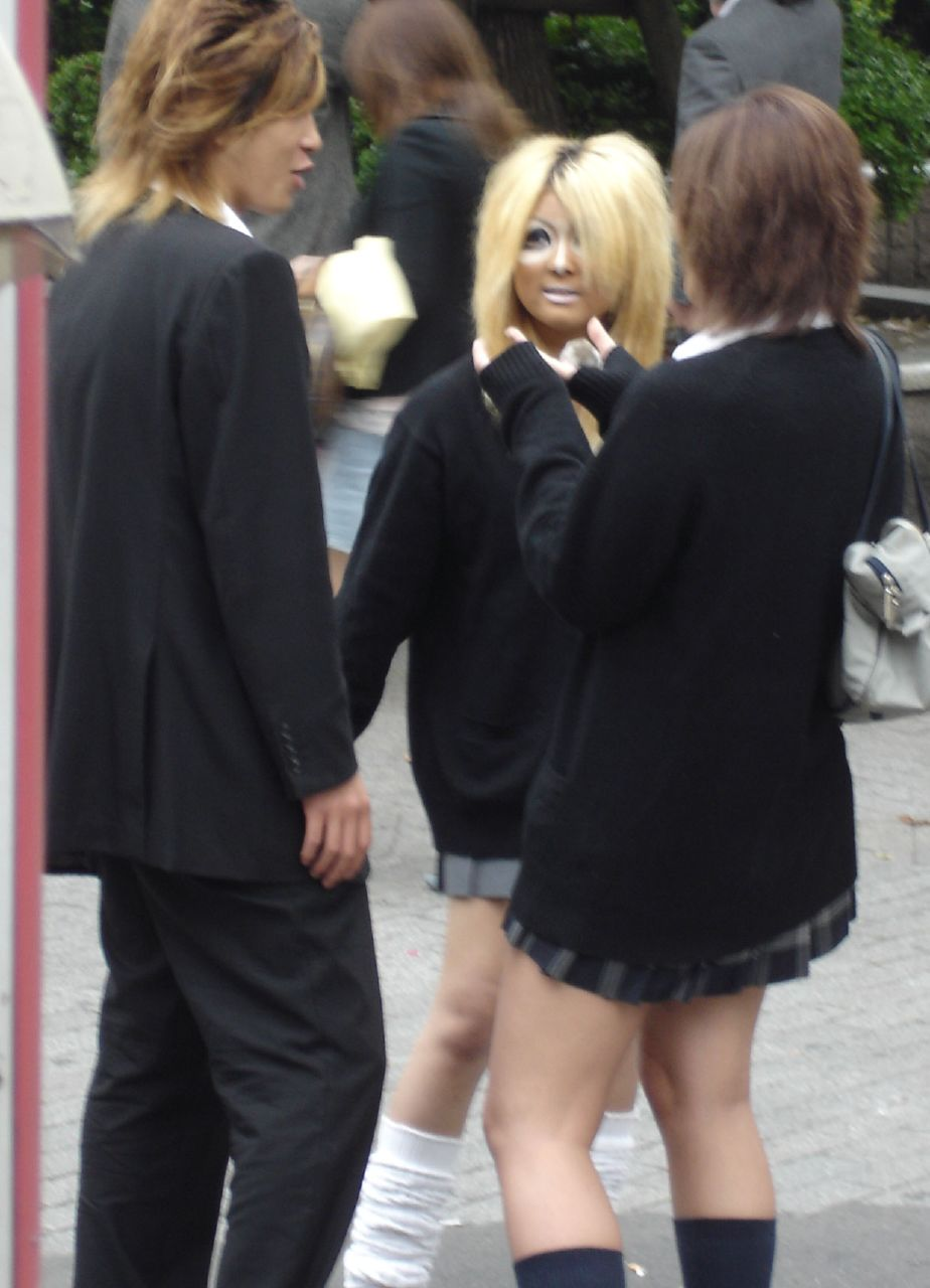 As seen on the streets in the shibuya district